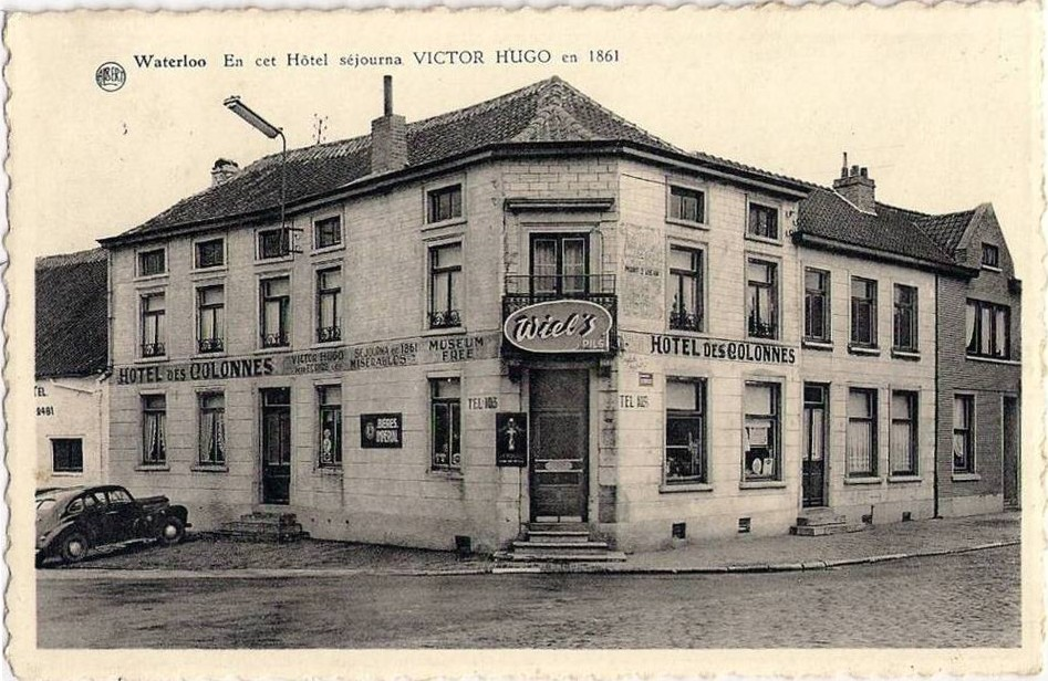 The Column's Hoetl in Waterloo where Victor Hugo stayed in 1860 when he visited the 1815 battlefield. He completed "les Misérables" in his room above the main entrance. The buiding was teared down in 1963 to accommodate for heavy traffic despite worldwide protest. (location : crossroad of N5 and N27, NW segment)